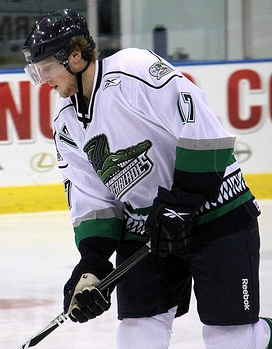 Jared Staal of the Florida Everblades, pregame warmups on December 22, 2010